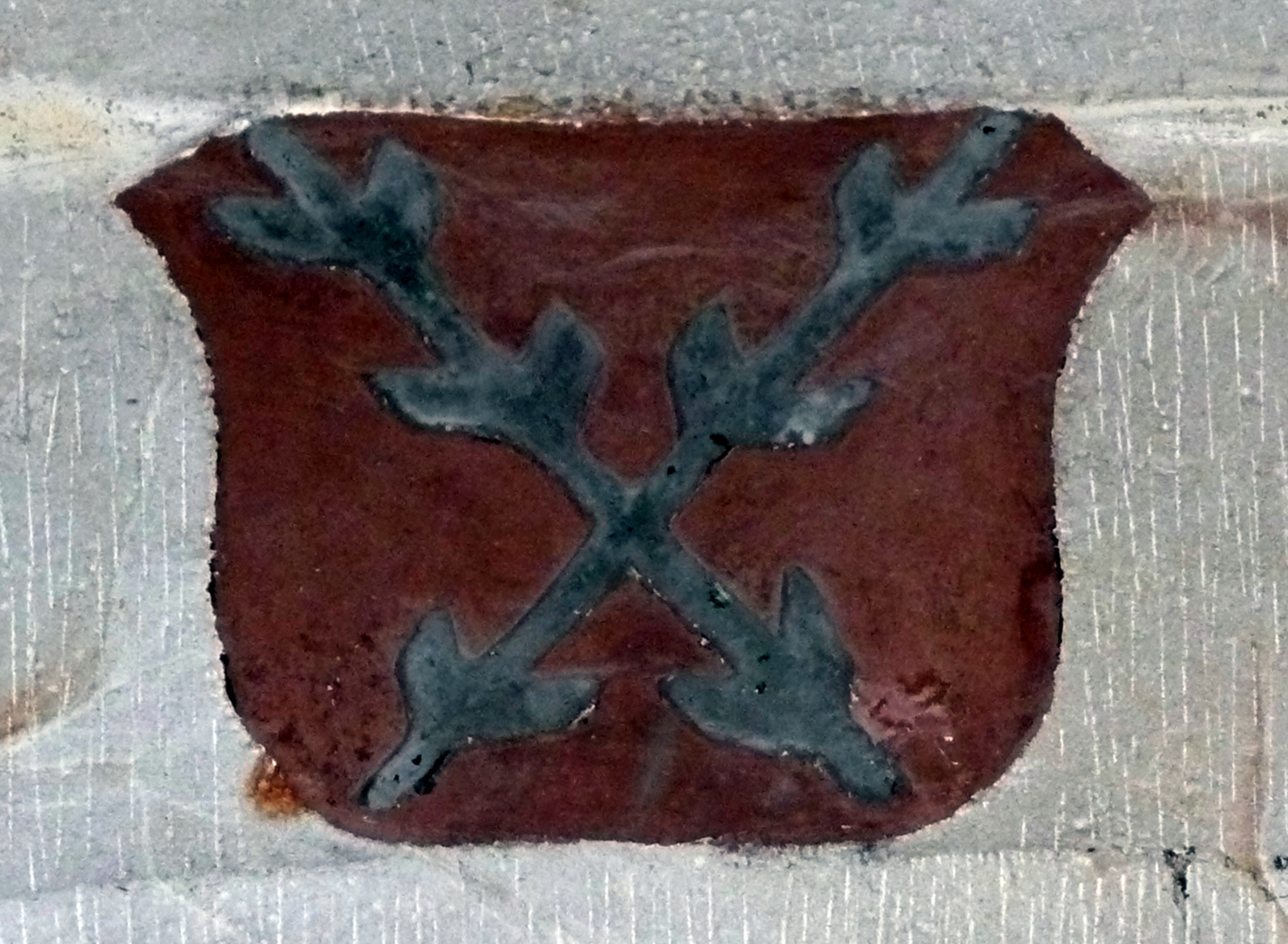 This image shows the coat of arms of the counts of Berka z Dubé, medieval Bohemian aristocracy. The foto was taken on Hohnstein Castle in the Saxon Switzerland.